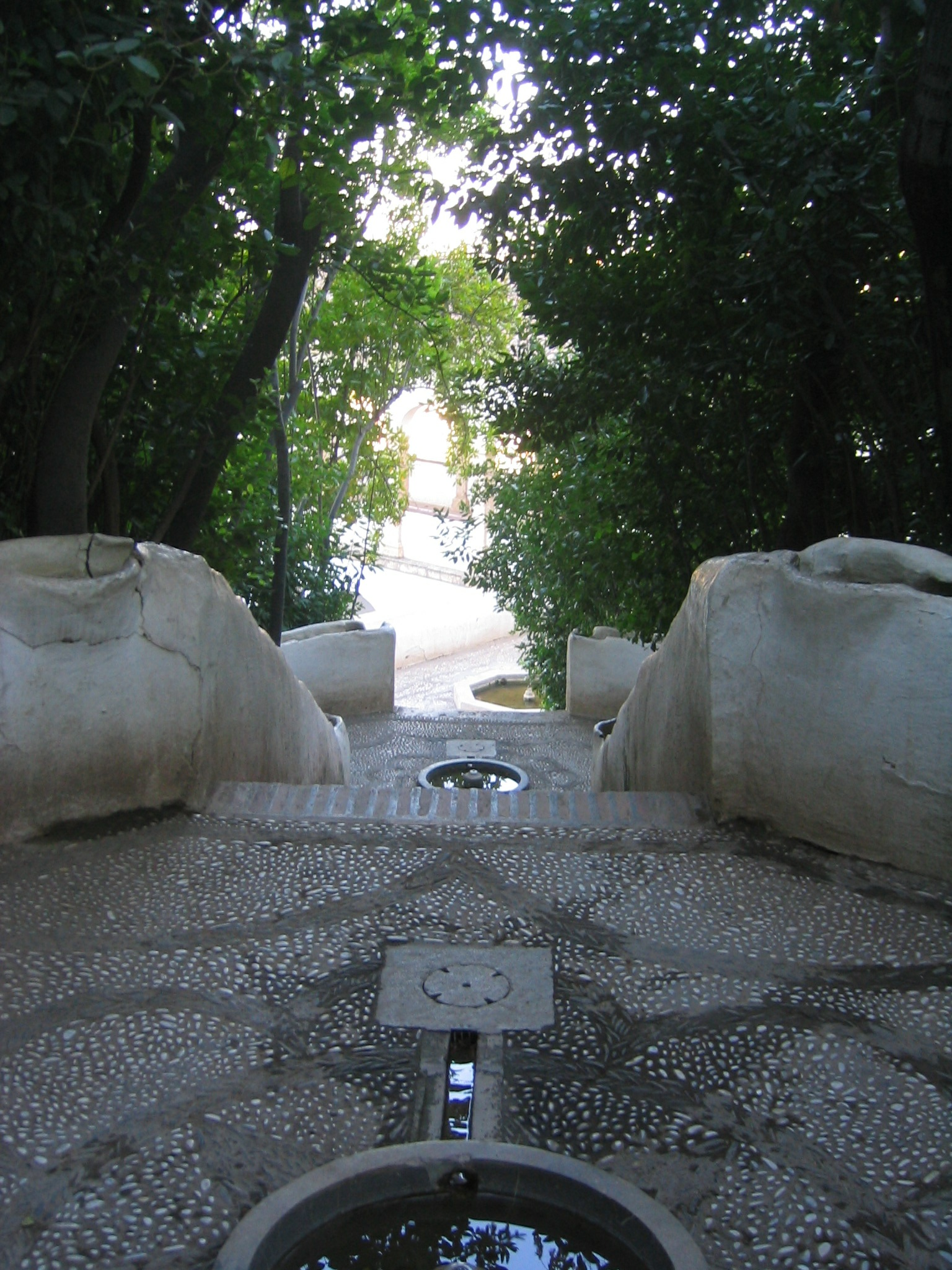 Description: this is an own picture; high gardens of Generalife; Alhambra, Granada, Spain Purpose : al-andalus series of articles, in Wikipédia (FR). Source: Utilisateur:Holycharly Date:April 14th 2005